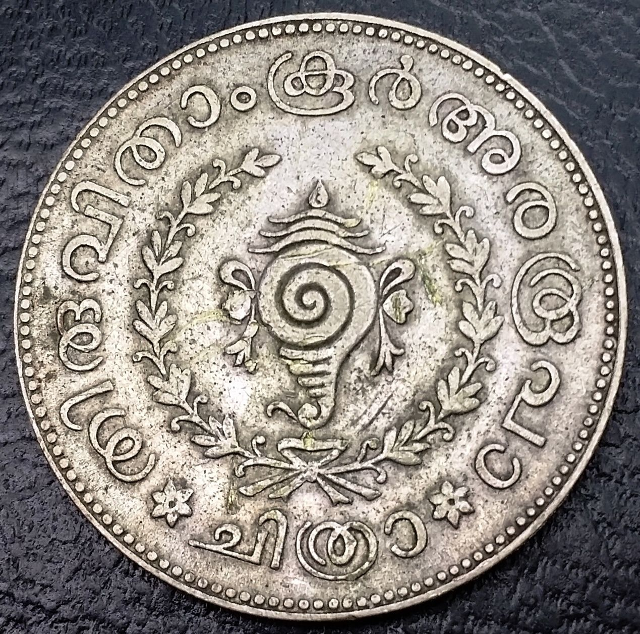 Travancore Half Rupee - 1116 - Reverse - Kerala